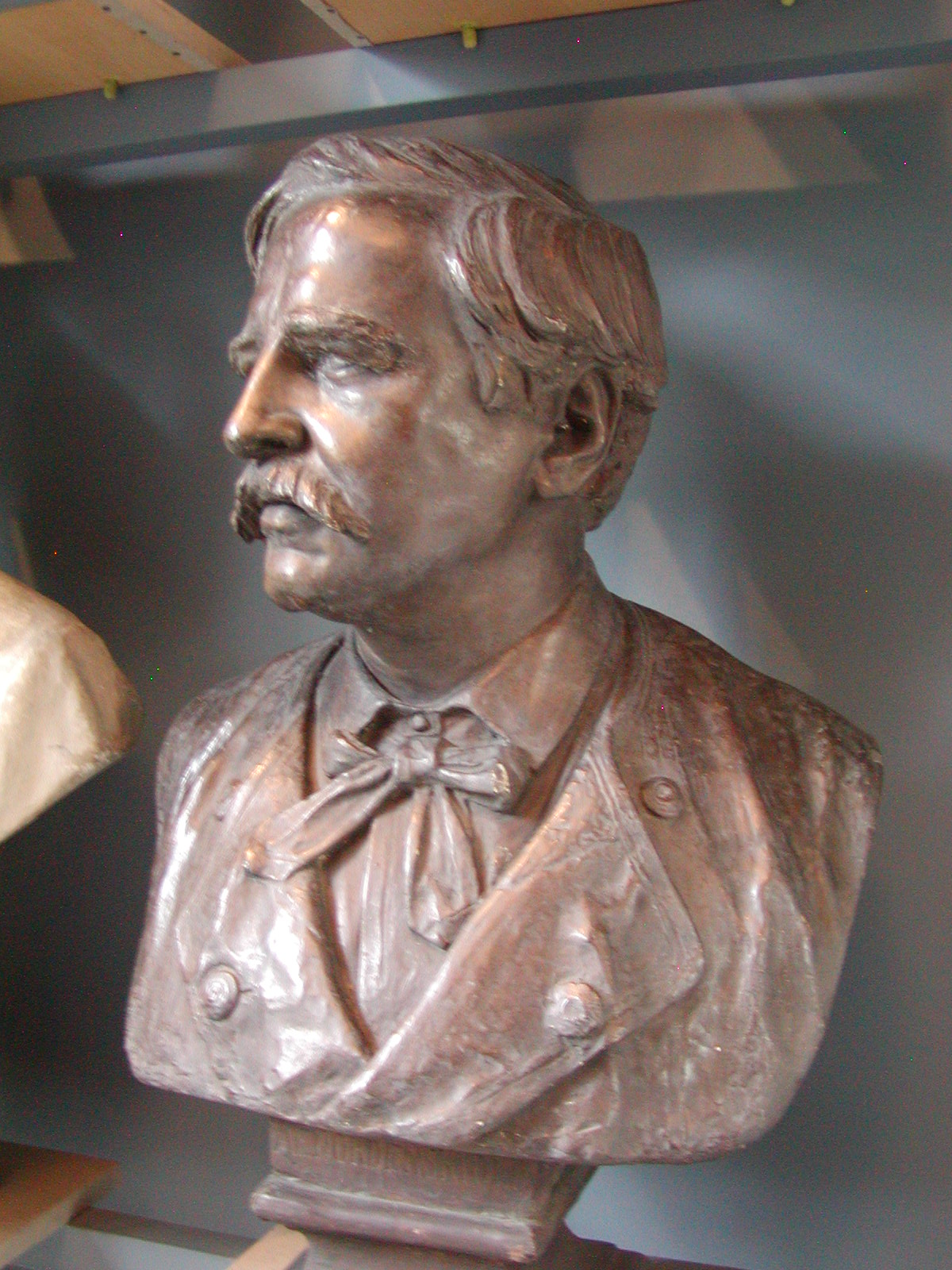 Bust of Adolf Erik Nordenskiöld by Walter Runeberg (son of Johan Ludvig Runeberg) on display at the Runeberg Museum